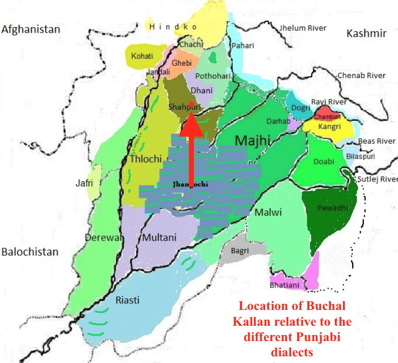 Buchal Kalan languages